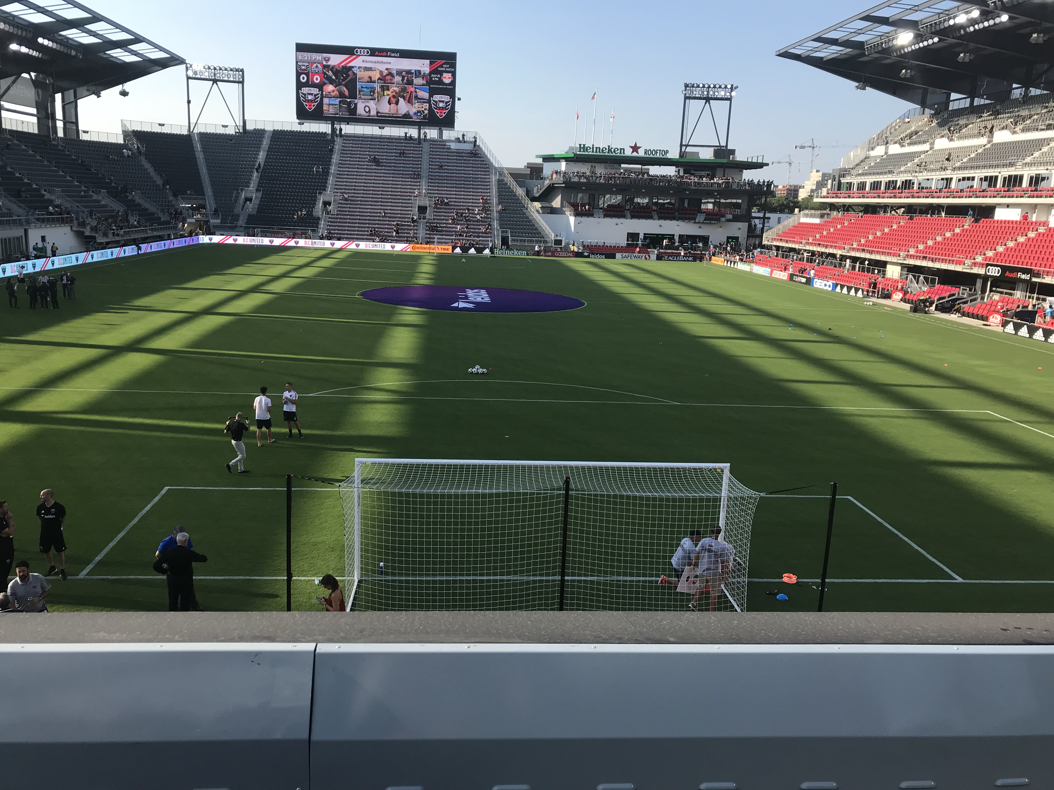 Audi Field before the opening match.